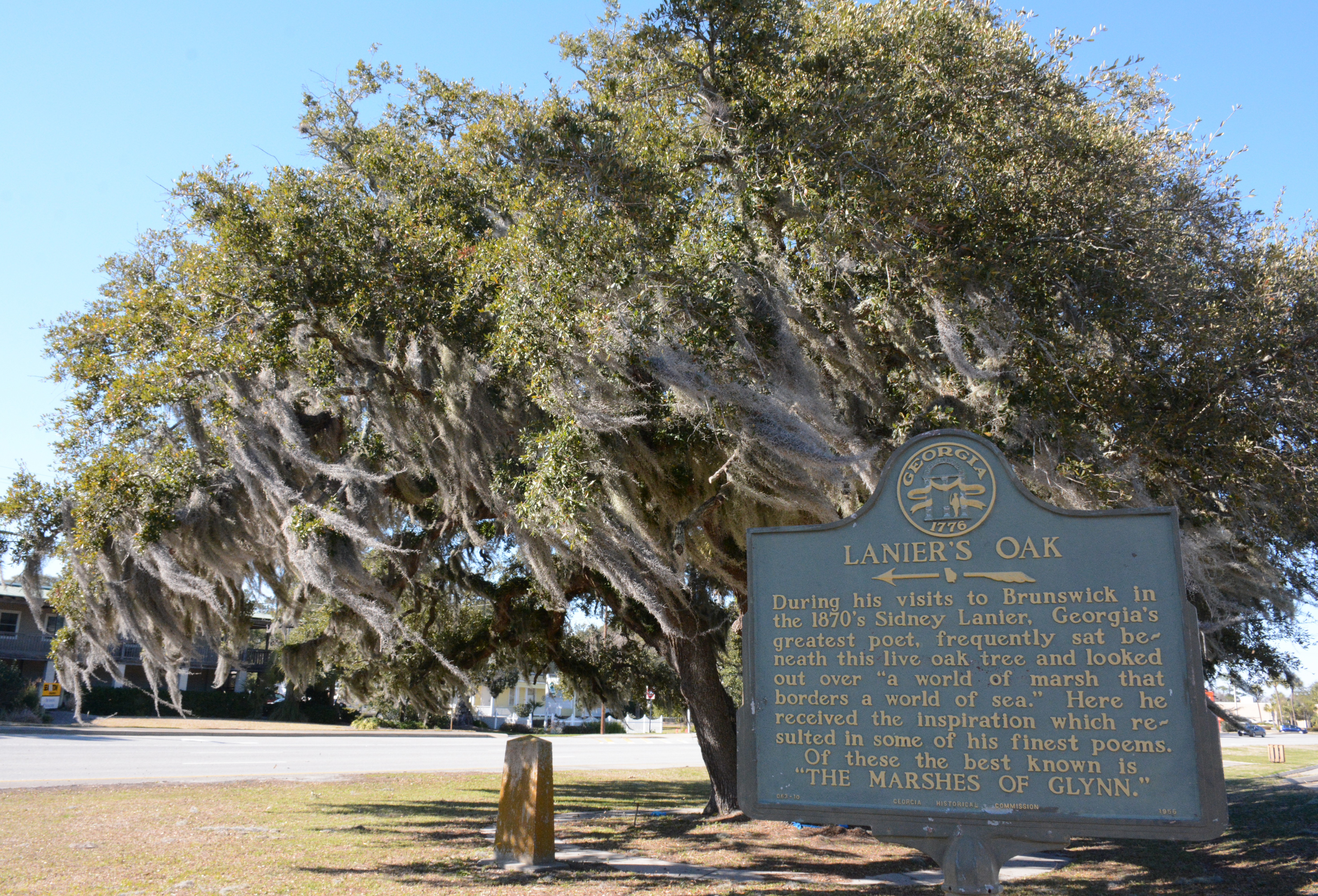 Sidney Lanier sat under an oak tree at this location and was inspired to write the poem "The Marshes of Glynn".